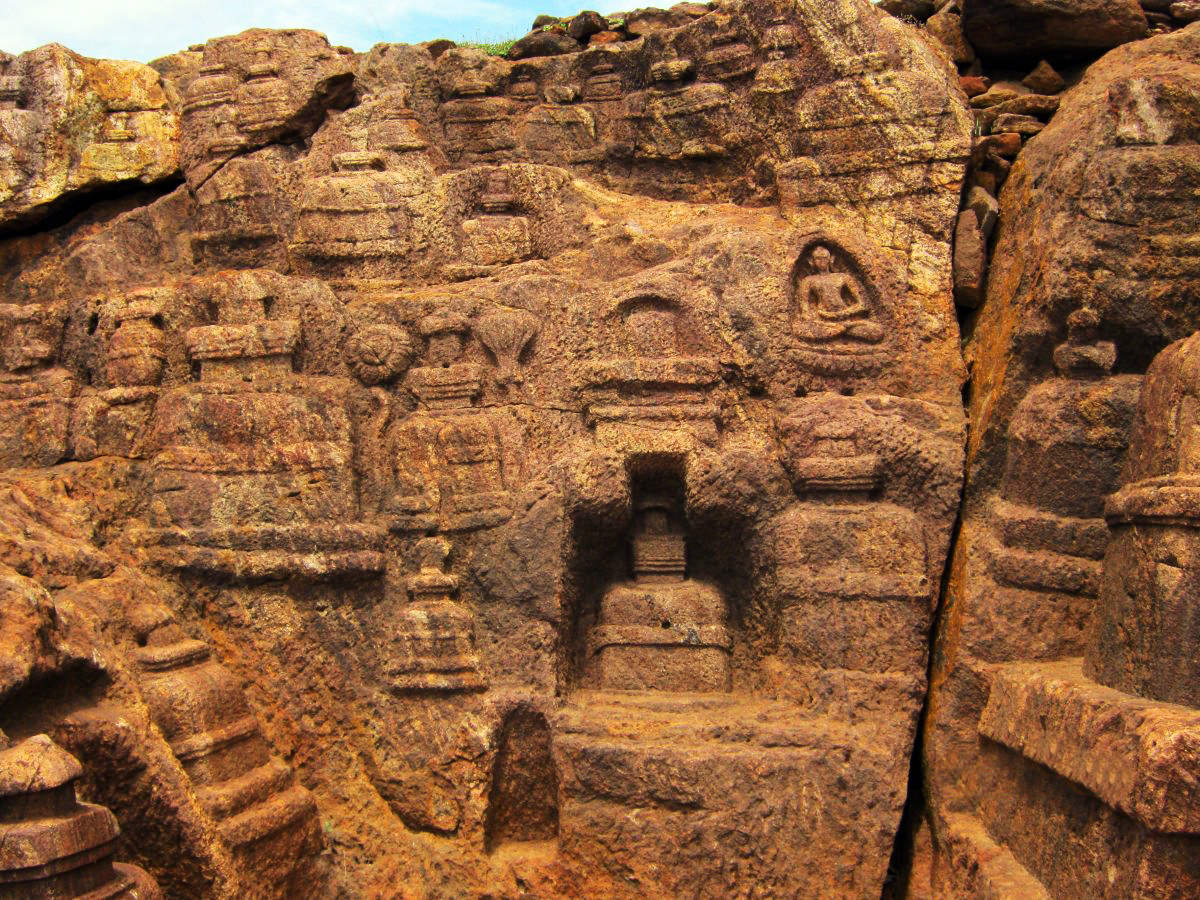 Pushpagiri (Langudi Hill) - Jajpur - Odisha - Buddhist site - Rock-Cut Stupas ଓଡ଼ିଆ: ଲଳିତଗିରି